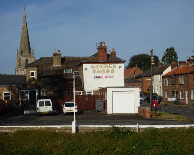 Billinghay village scene Looking into Billinghay village from the main road. The pub is the Golden Cross.